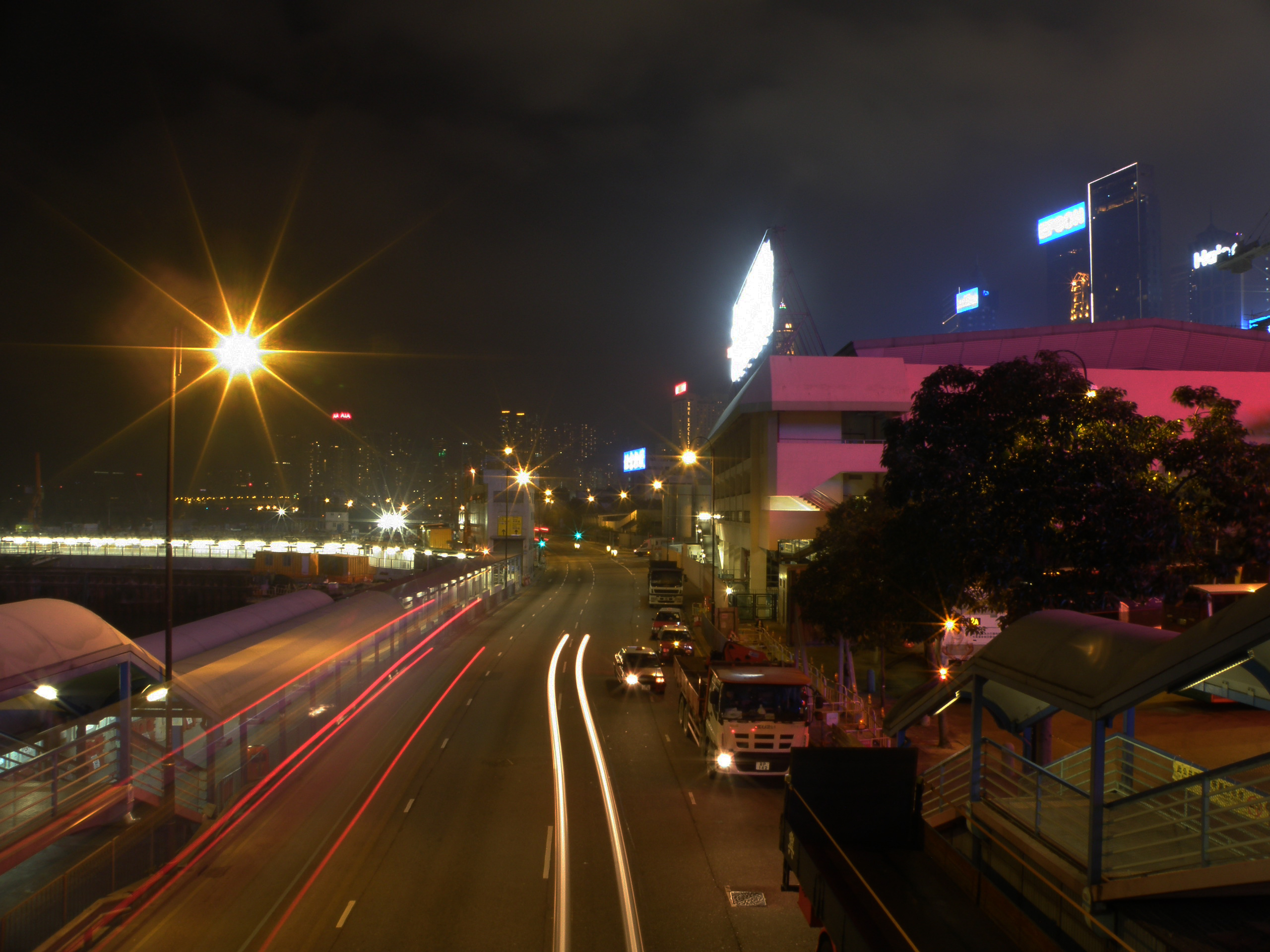 Convention Avenue in Wan Chai, Hong Kong.